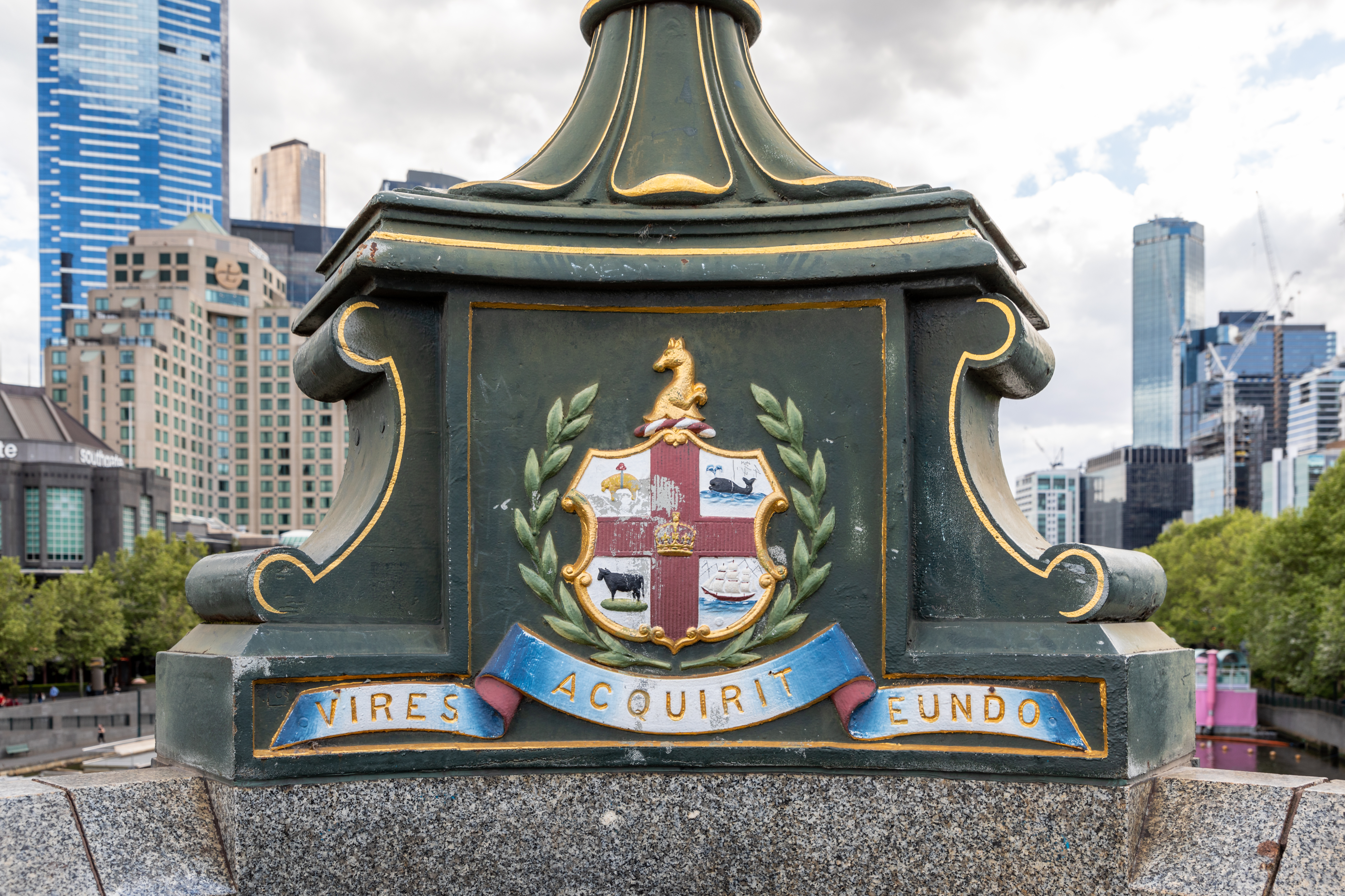 Coat of arms of Melbourne at Princes Bridge, Melbourne, Victoria, Australia